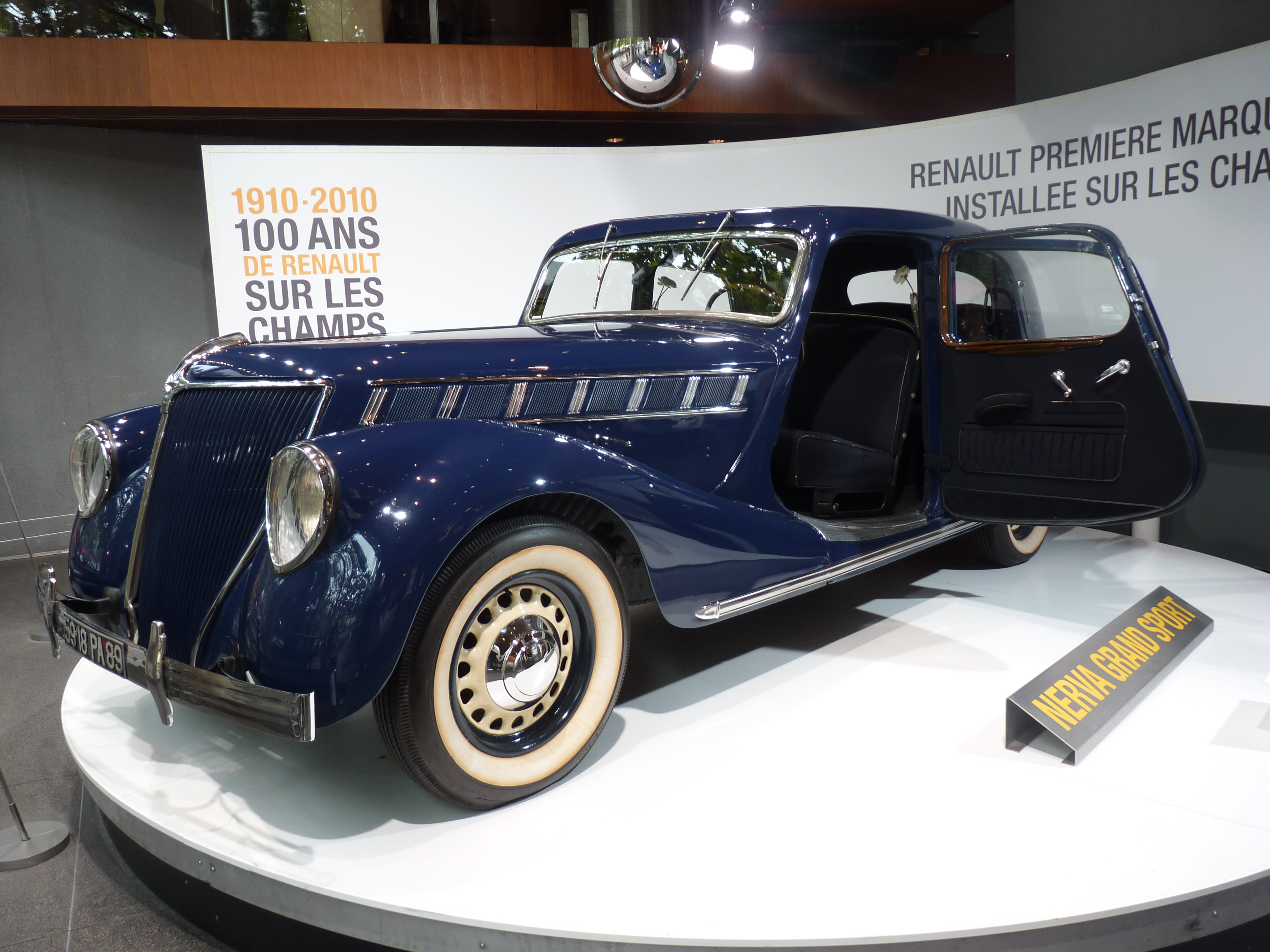 Renault Nerva Grand Sport at L'Atelier Renault Paris.